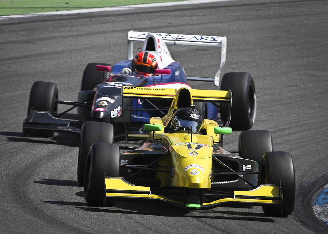 Alexey Chuklin in Hockenheim, Germany